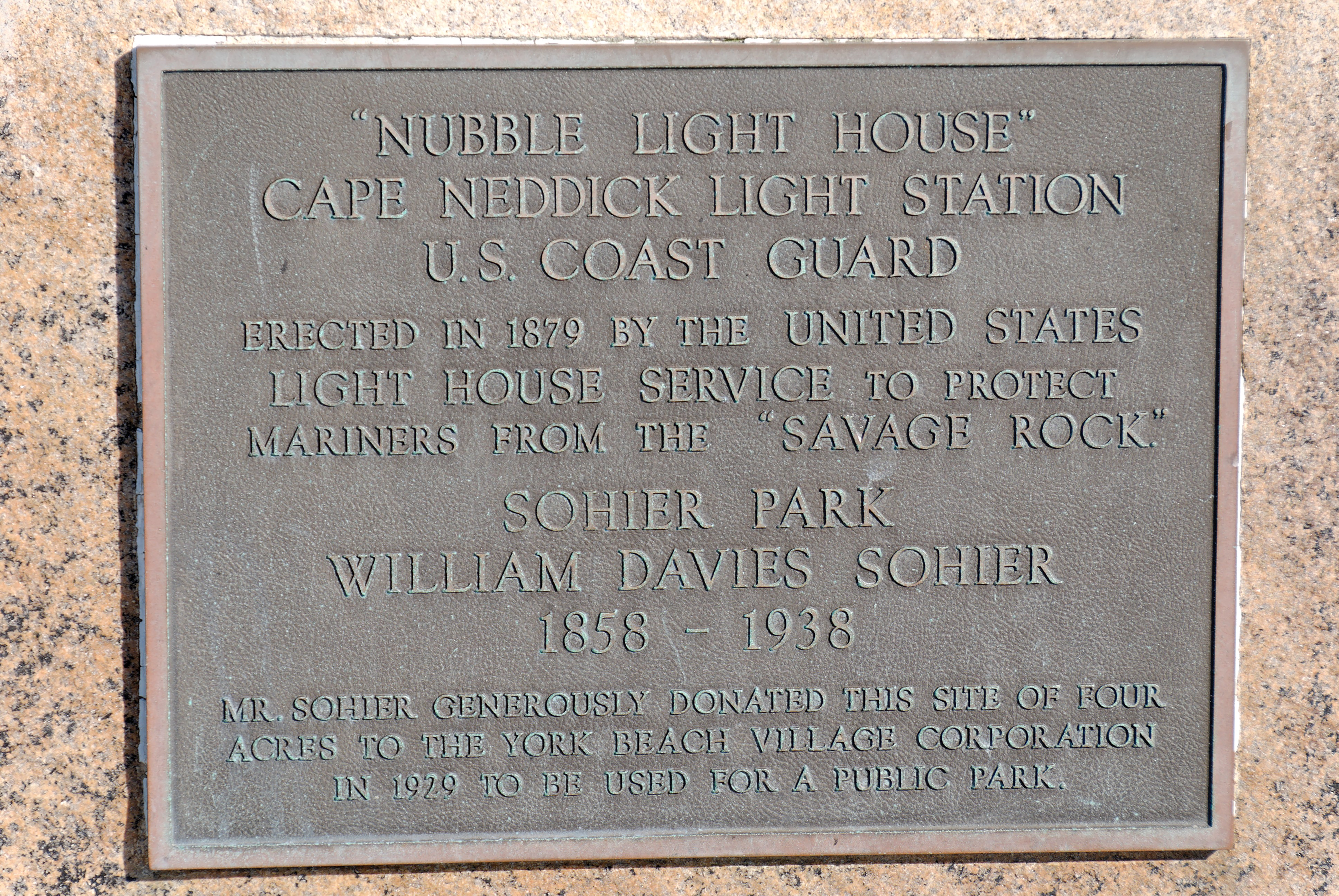 Cape Neddick ("Nubble") Lighthouse Information Plate, York Beach, Maine, U.S.A.